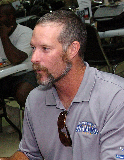 Jack McDowell, a retired Major League Baseball pitcher, at Camp As Sayliyah in Qatar on Sept. 27, 2007.